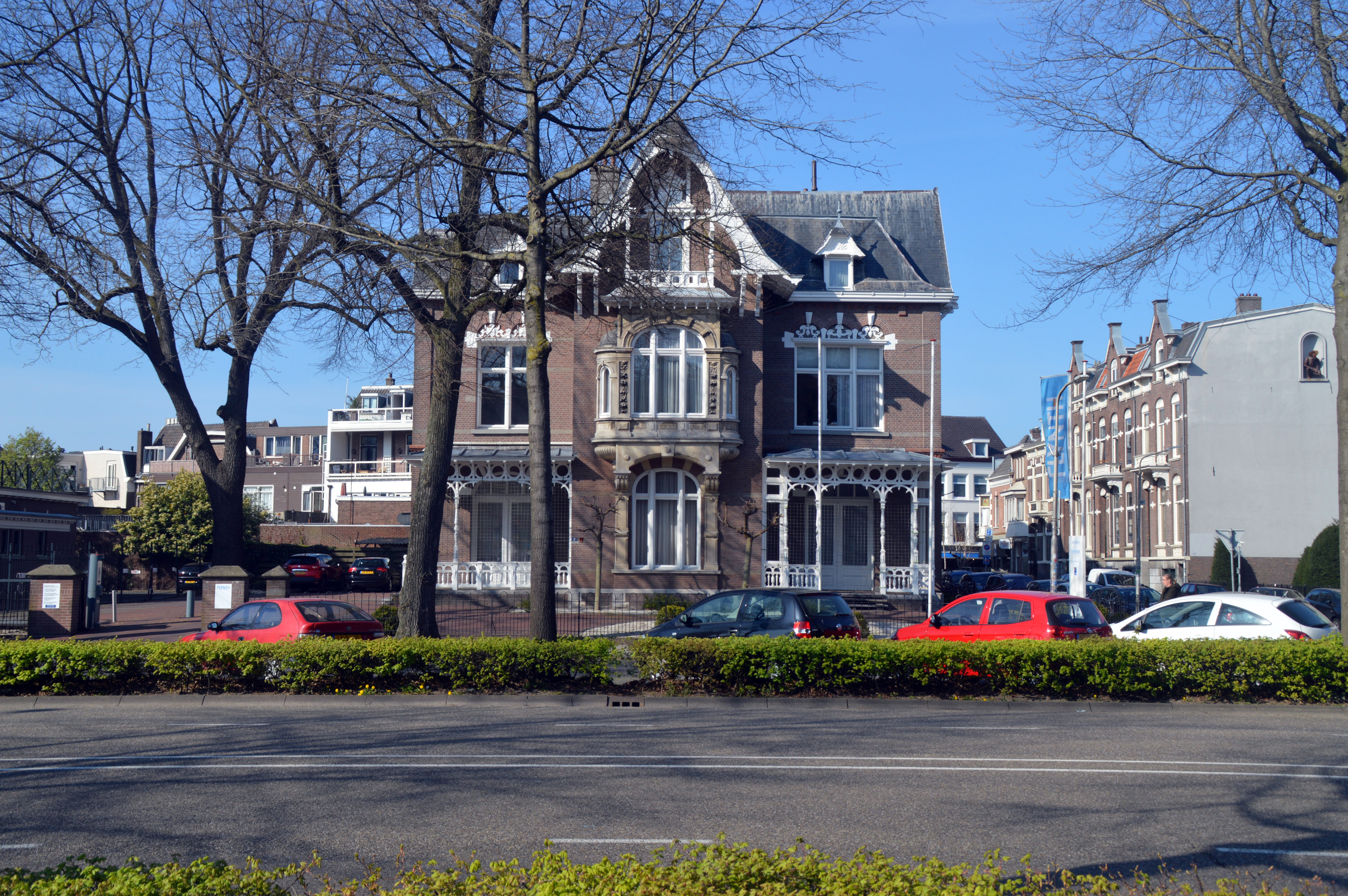 Villa Oranjesingel 2a by architect Jan Jacob Weve Year of construction 1889 Nijmegen National monument 523009